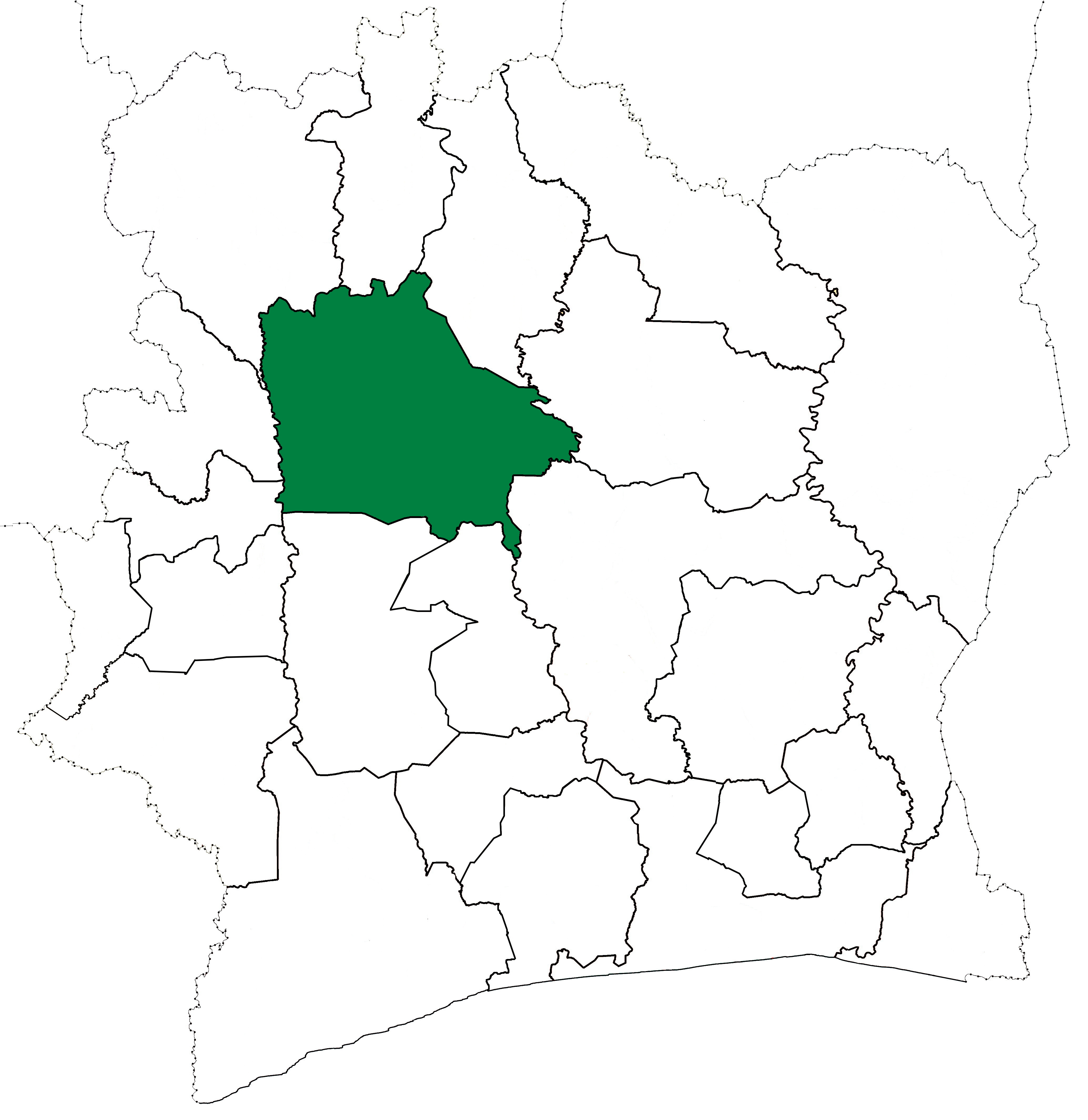 Locator map for Séguéla Department in Côte d'Ivoire when the 24 new departments were created in 1969. Séguéla Department kept these boundaries until 1980, but other departments began to be divided in 1974.